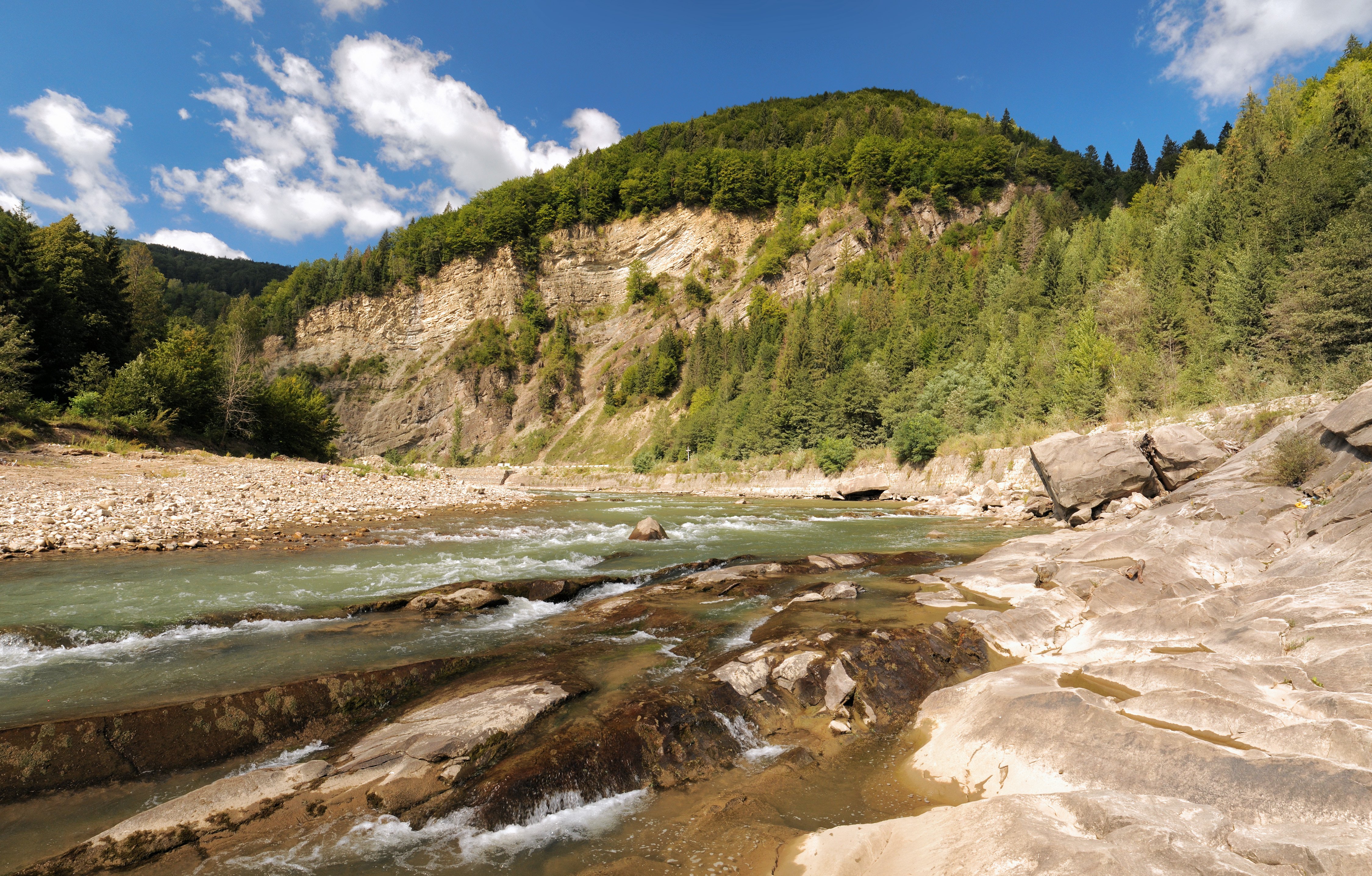 Cheremosh river, Sokilets rock. National Nature Park "Hutsulshchyna"